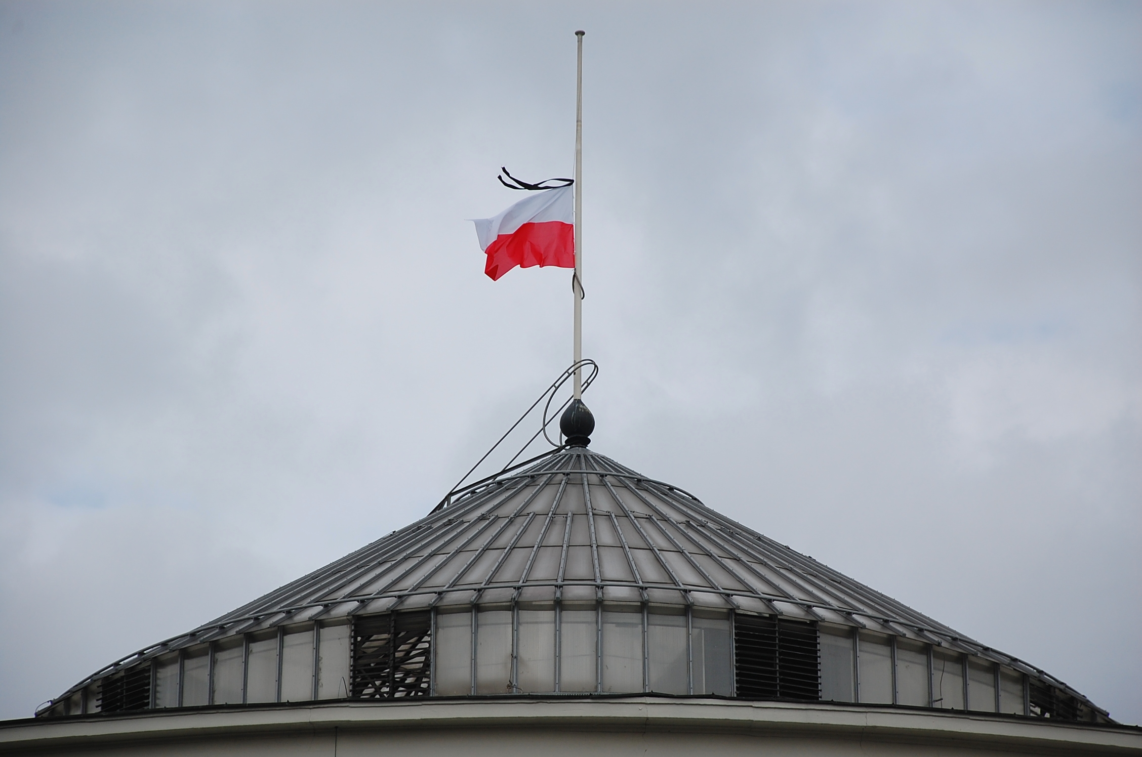 Flag waved at half-mast at Sejm building, Warsaw, Poland